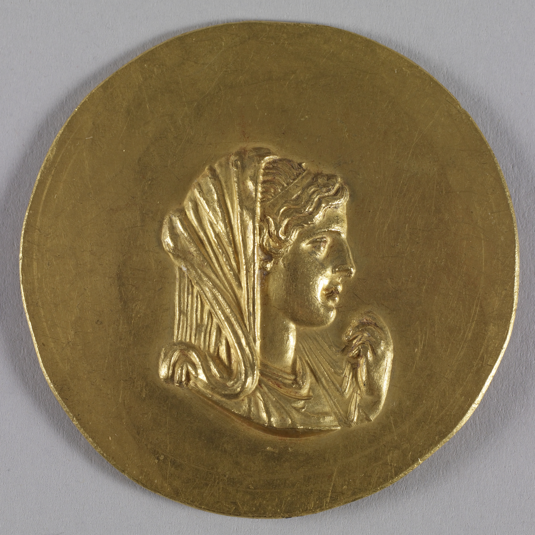 Together with 59.1 and 59.3, this piece is part of a series of large gold medallions that was commissioned to honor Emperor Caracalla, representing him as the descendant of Alexander the Great. These medallions, found at Aboukir in Upper Egypt, demonstrate the artistry and technical prowess achieved by an imperial mint, perhaps that of Ephesus or Perinthus (both cities in western Asia Minor). Olympias, mother of Alexander the Great, is depicted here in profile. The back shows a "nereid" (sea nymph), perhaps Thetis, the mother of Achilles, riding on a hippocamp, a mythical sea-creature. Thus, the medallion forms part of a double comparison: Caracalla is compared to Alexander, the conqueror of the East; Alexander is compared to Achilles, a hero of the Trojan War.